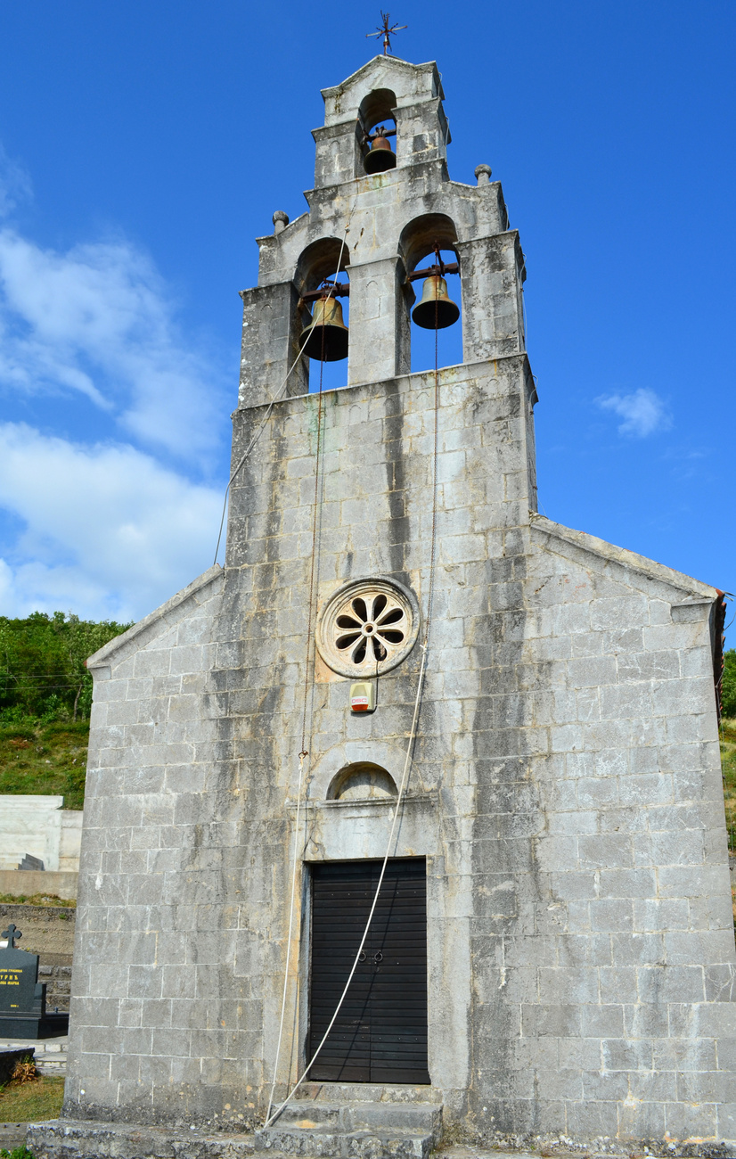 Archangel Michael Orthodox Church, Kovači, Montenegro